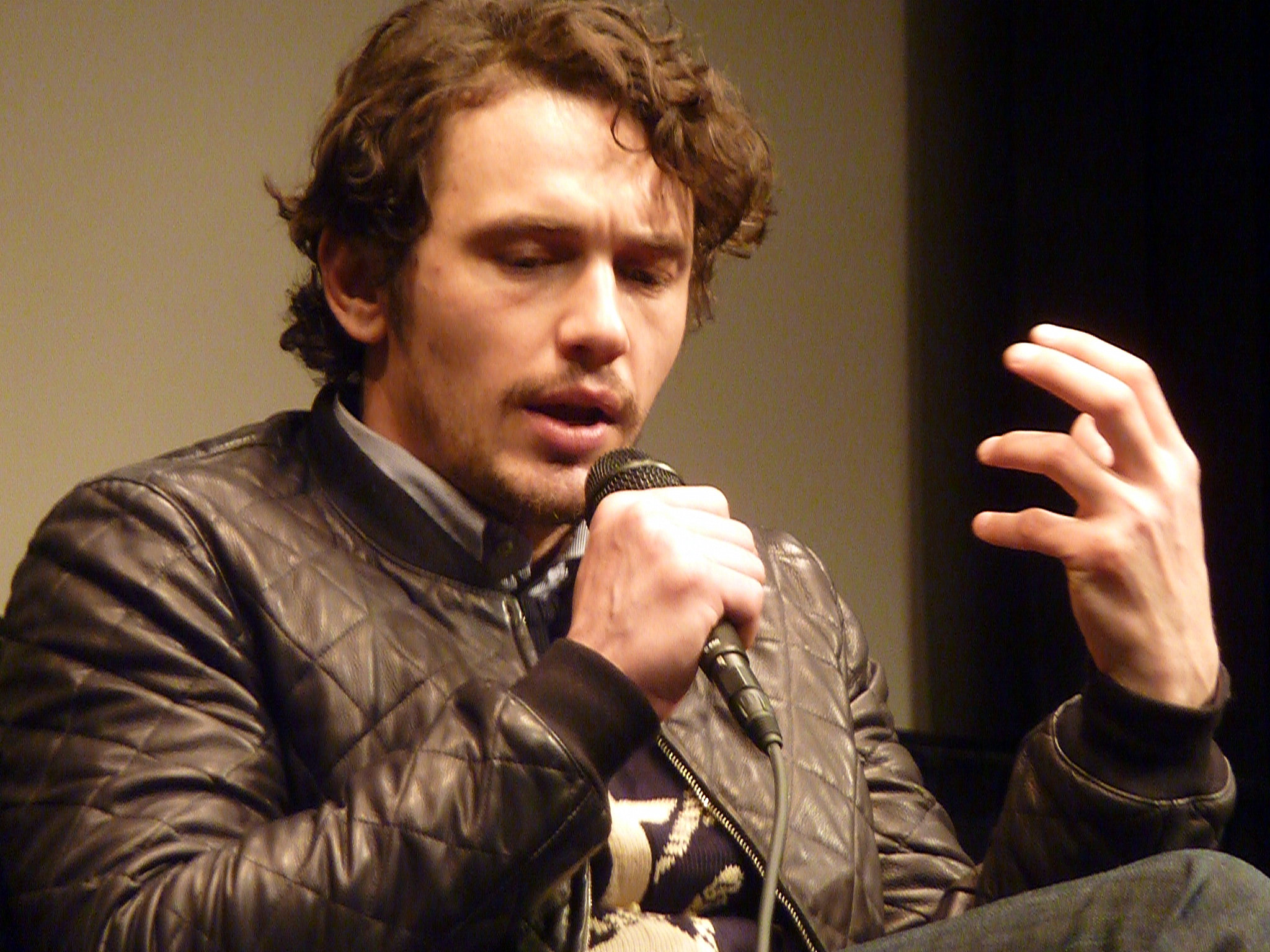 Actor and Filmmaker James Franco at the "My Own Private River" Film Society Of Lincoln Center Screening & Q&A 2012.